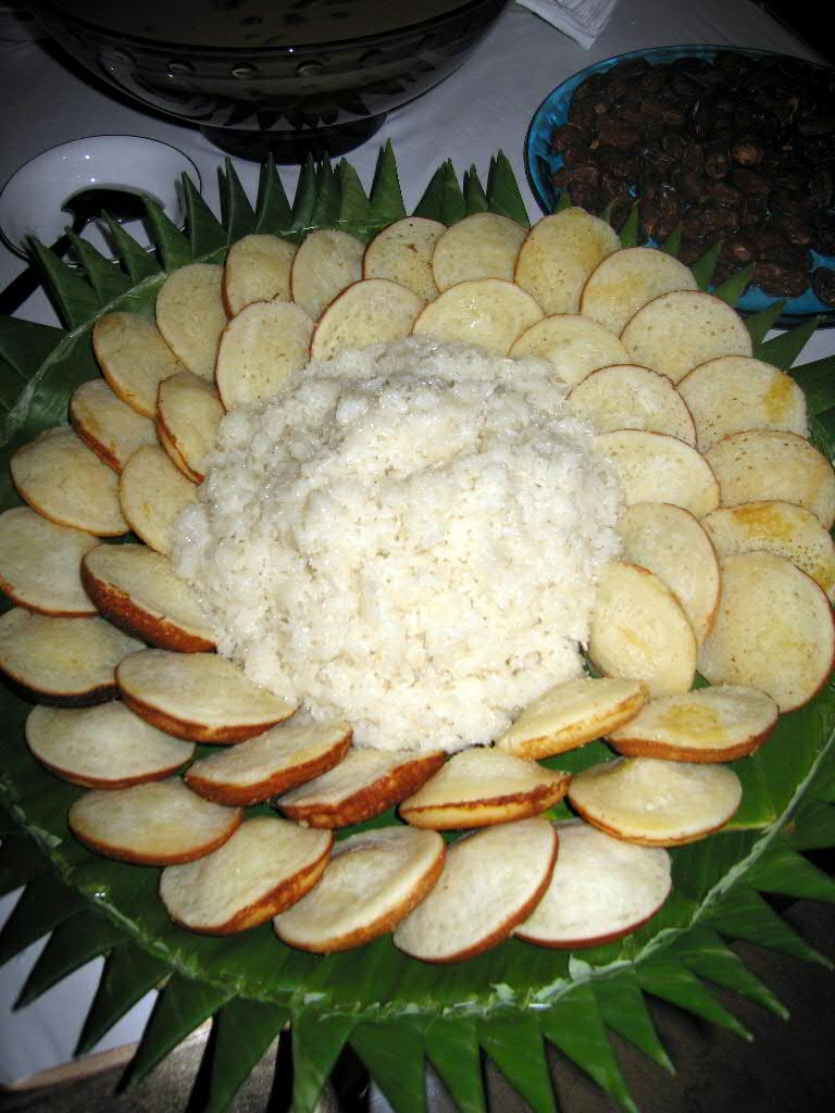 Satu tampah serabi dan kelapanya. An Indonesian snack that is made from rice flour with coconut milk or just plain shredded coconut as an emulsifier. Do keep in mind that each province in Indonesia has varying Serabi recipes corresponding to local tastes.